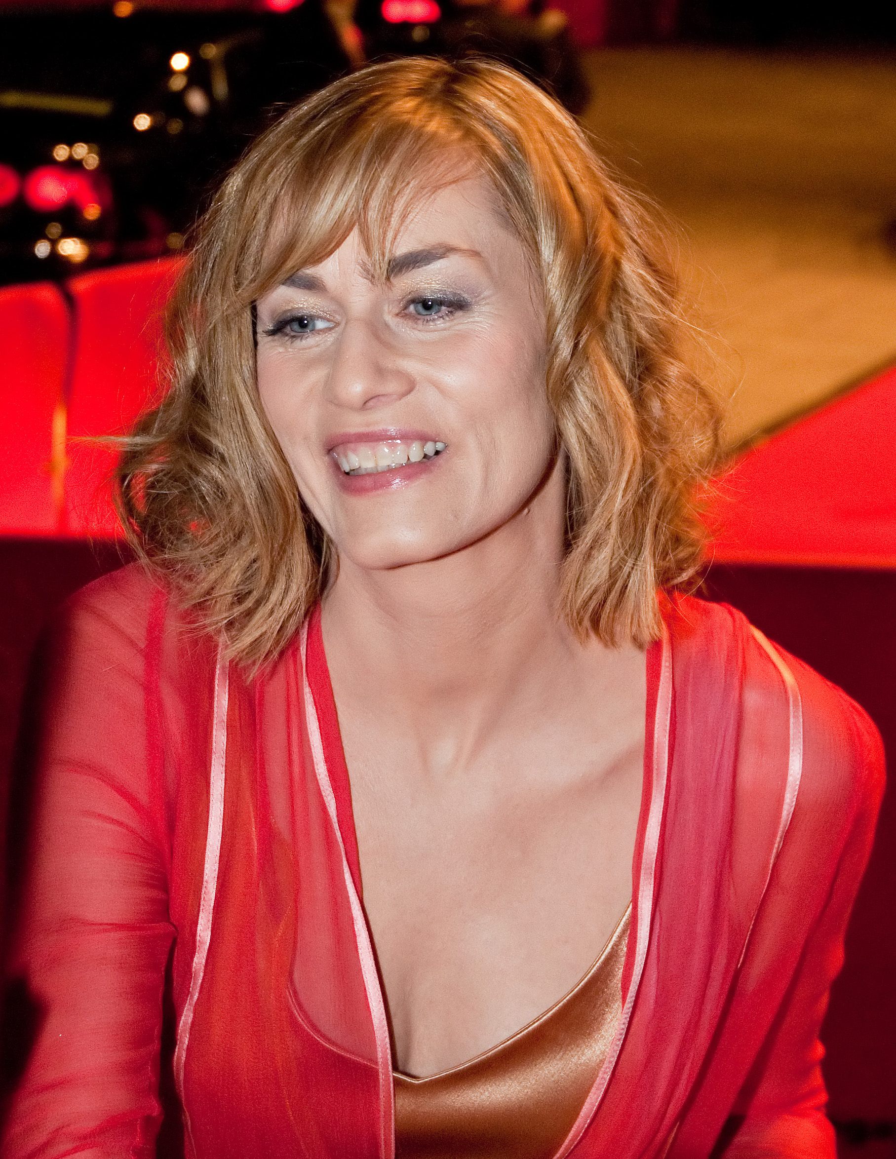 Gesine Cukrowski, German actress, at the 59th Berlin International Film Festival